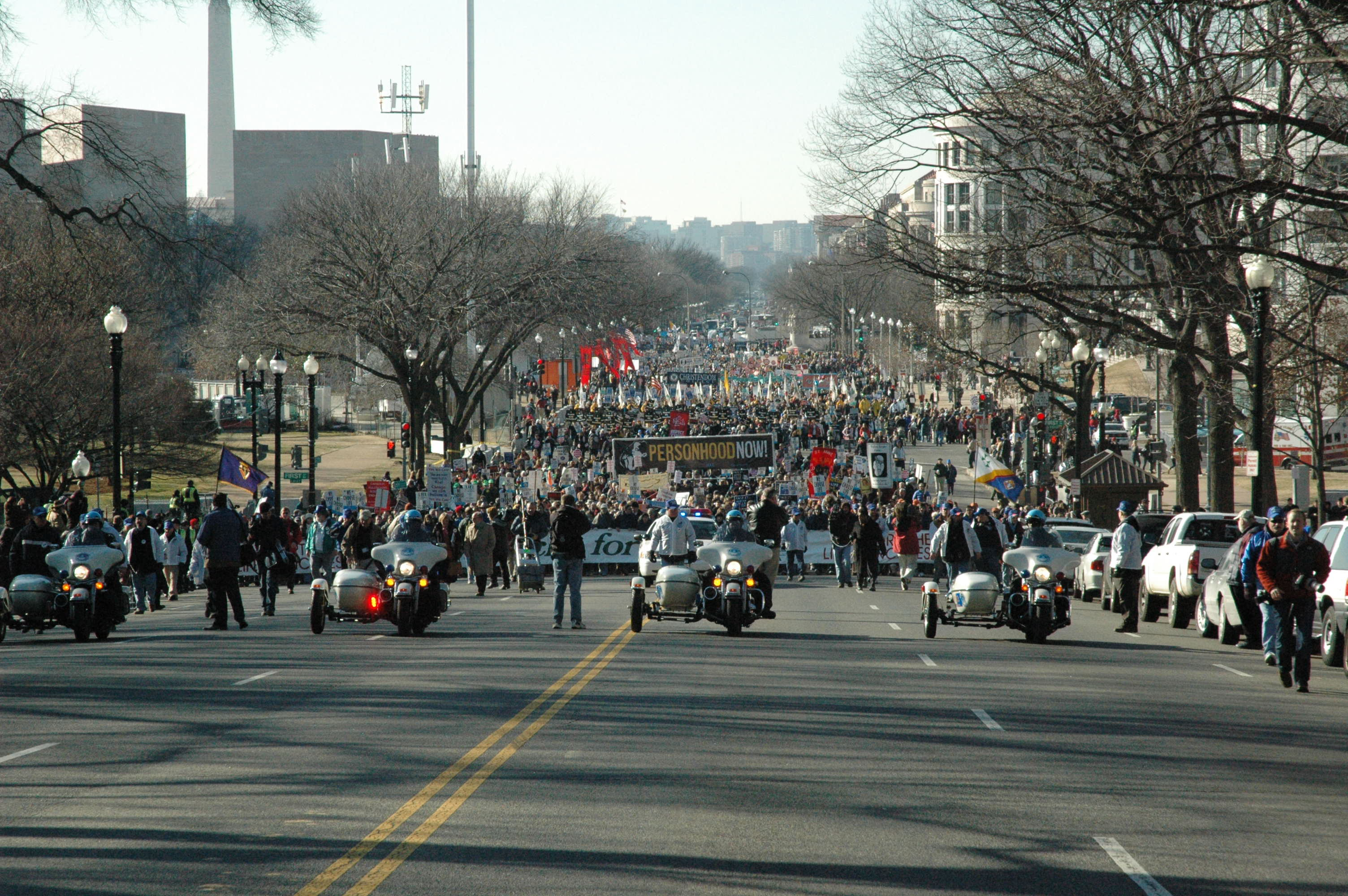 March for Life crowd shot of the beginning of the march in Washington, D.C. taken January 22, 2009. This year's weather was 42 degrees and clear, bringing crowds in the tens of thousands, according to the Associated Press and upward of 420,000 (estimated by American Life League’s crowd counters).[citation needed]